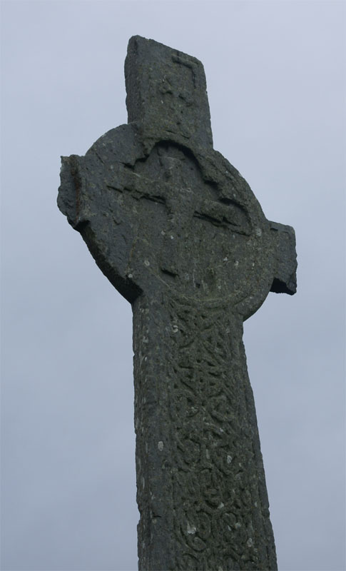 Iona, Scotland: MacLean's Cross - west face